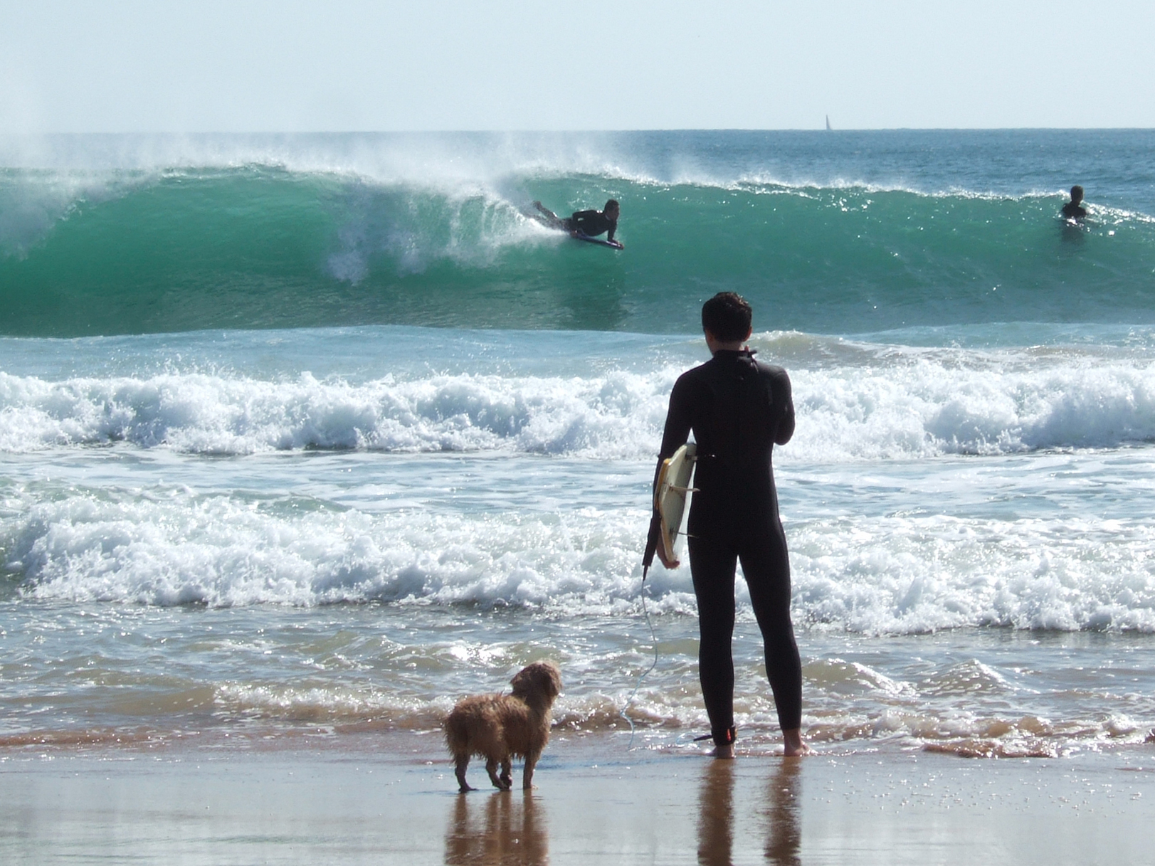 Surfers at Carcavelos beach, Portugal